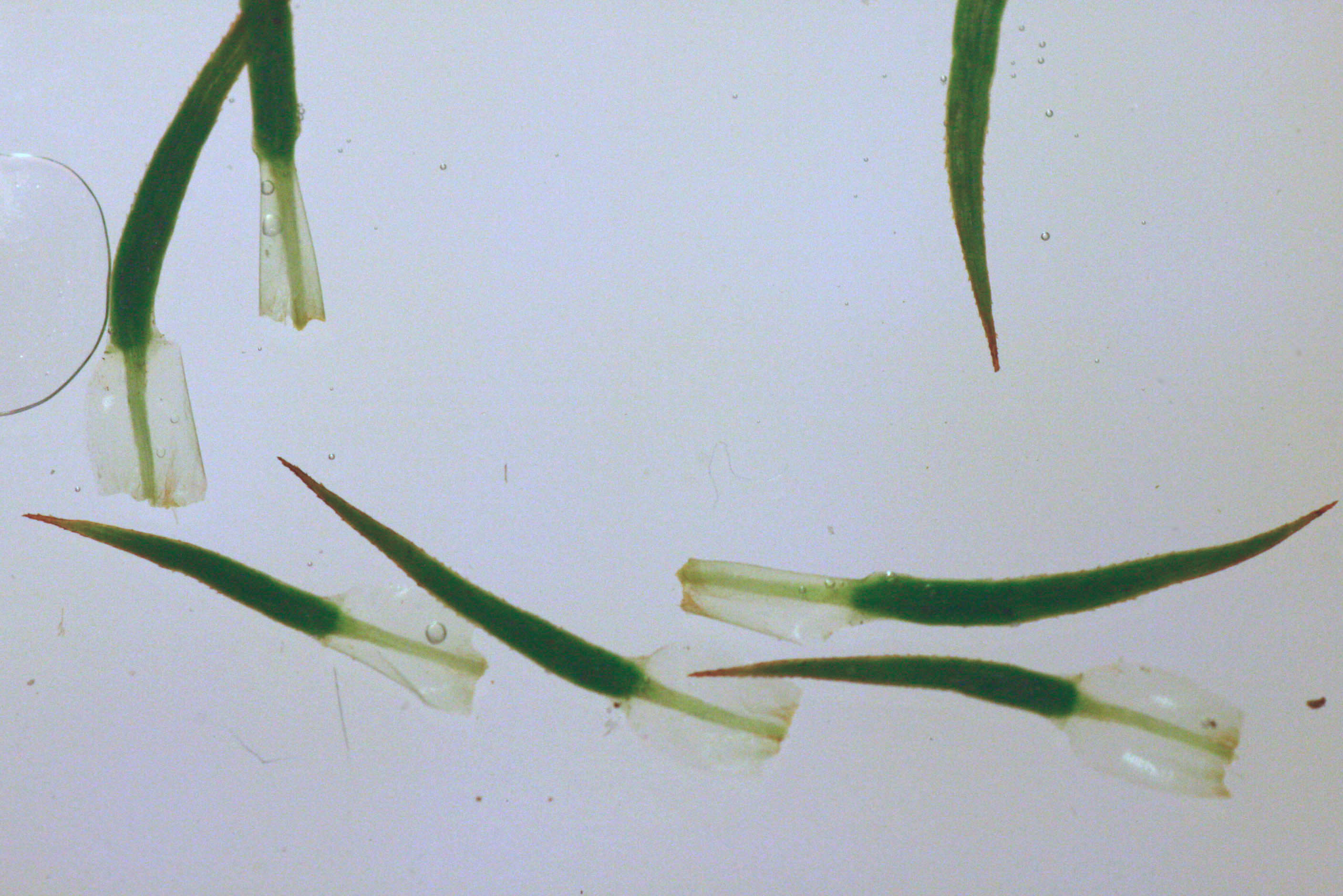 Polytrichum alpinum